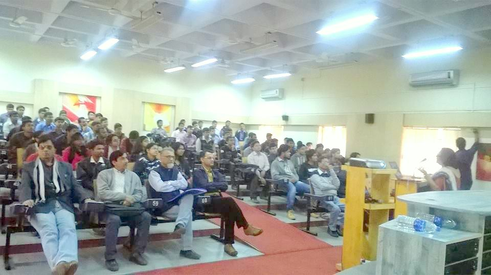 Language lab of JGEC